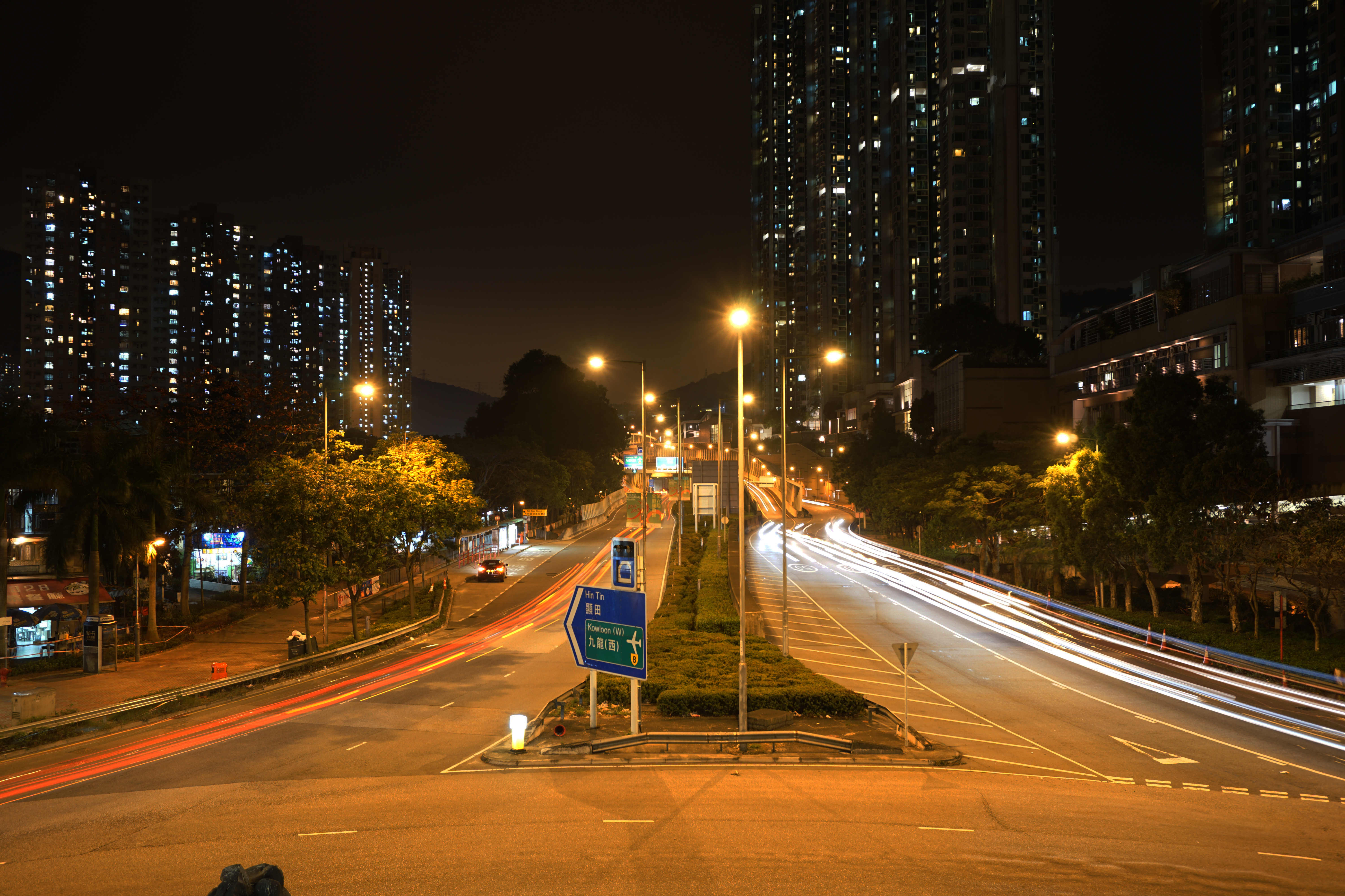 Che Kung Miu Road in Tai Wai, Hong Kong.